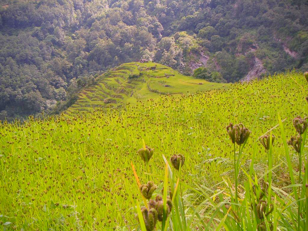 Fields of finger millet (Eleusine coracana) in the Annapurna-region of Nepal